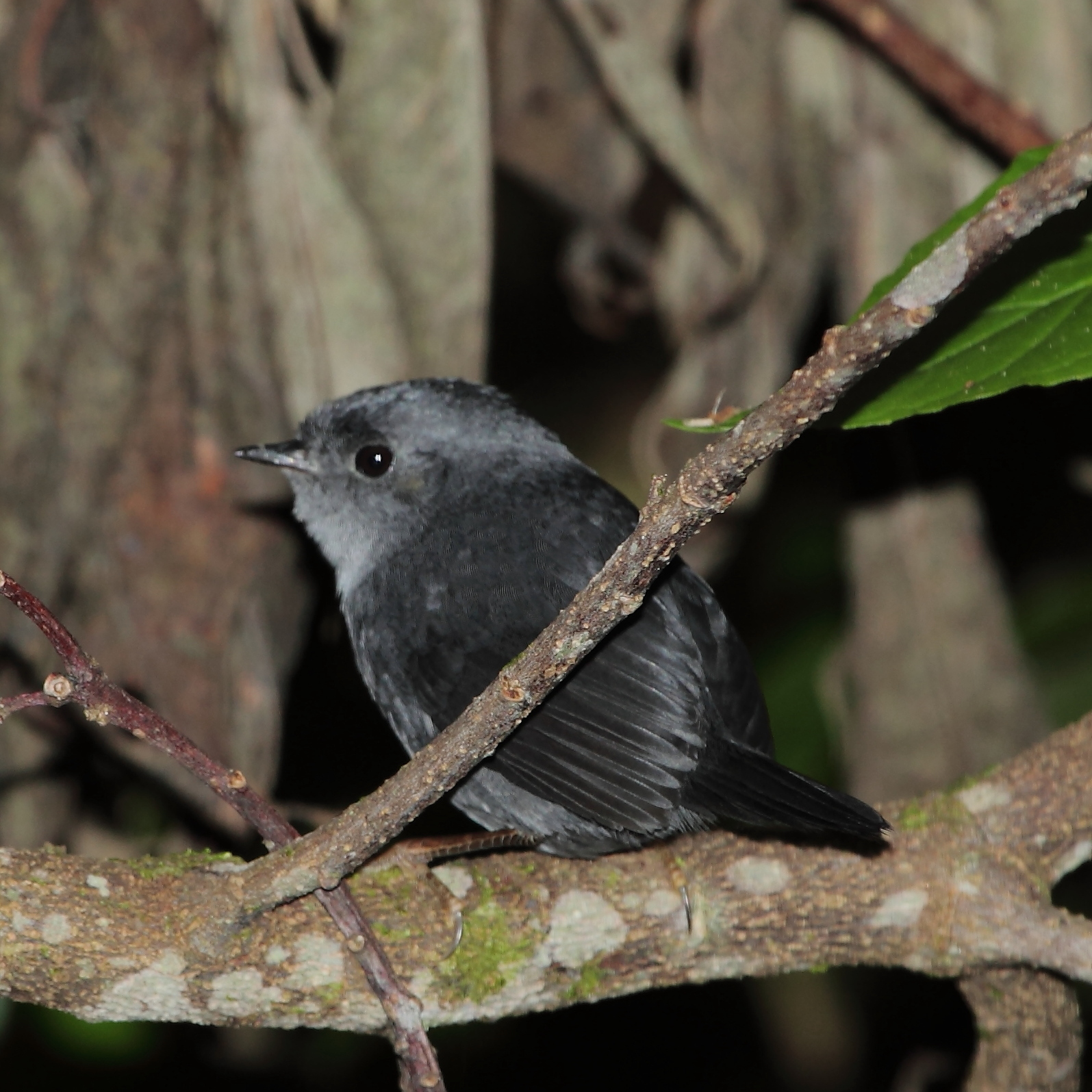 Mouse-coloured Tapaculo at Campos do Jordão - SP -Brazil